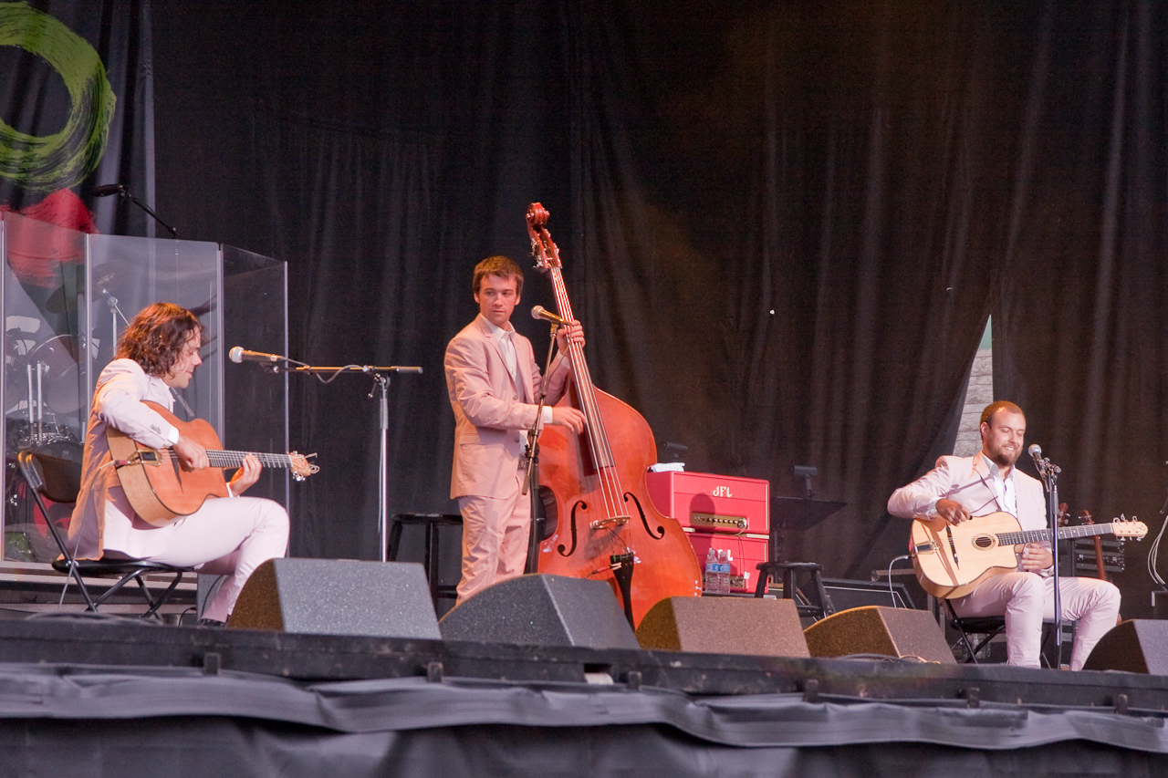 French-Canadian jazz band The Lost Fingers performing at the Festival franco-ontarien on June 11, 2009 in Ottawa, Canada. From left to right, Christian Roberge, Alex Morissette, and Byron Mikaloff.